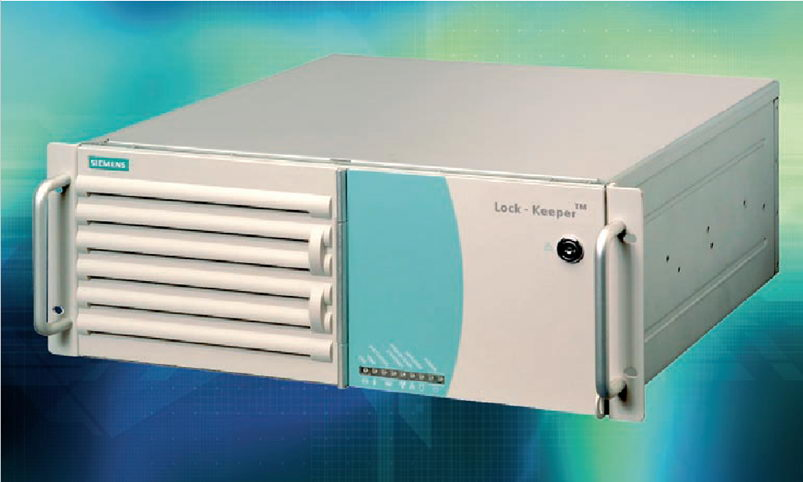 Siemens Lock-Keeper Appearance.